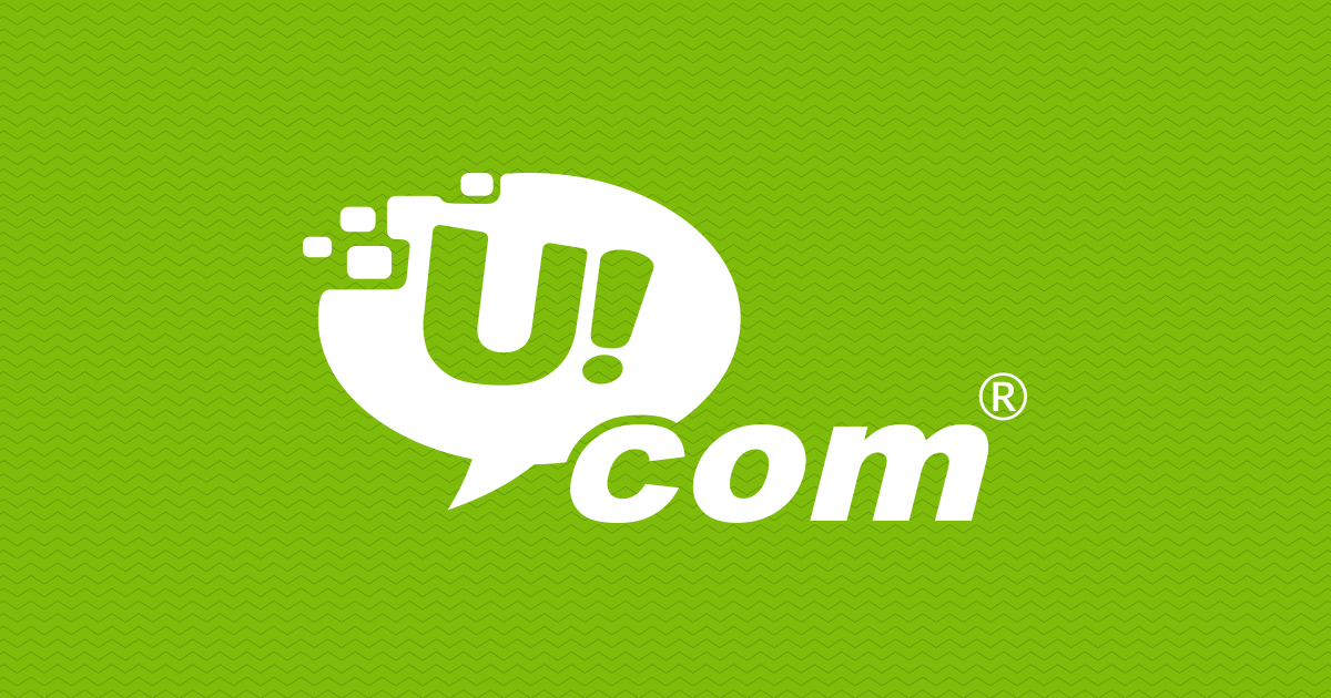 Ucom Logo